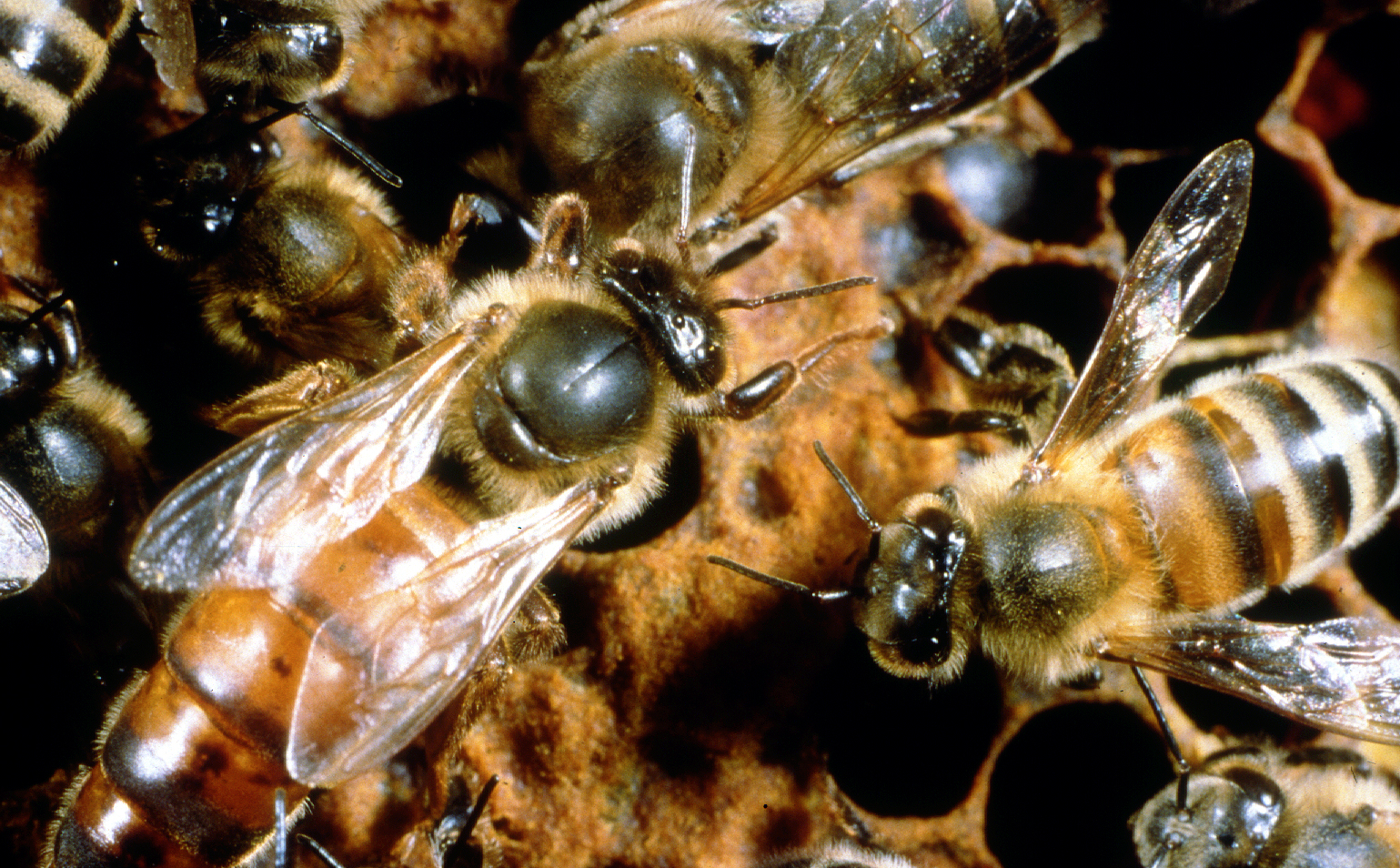 Queen Bee